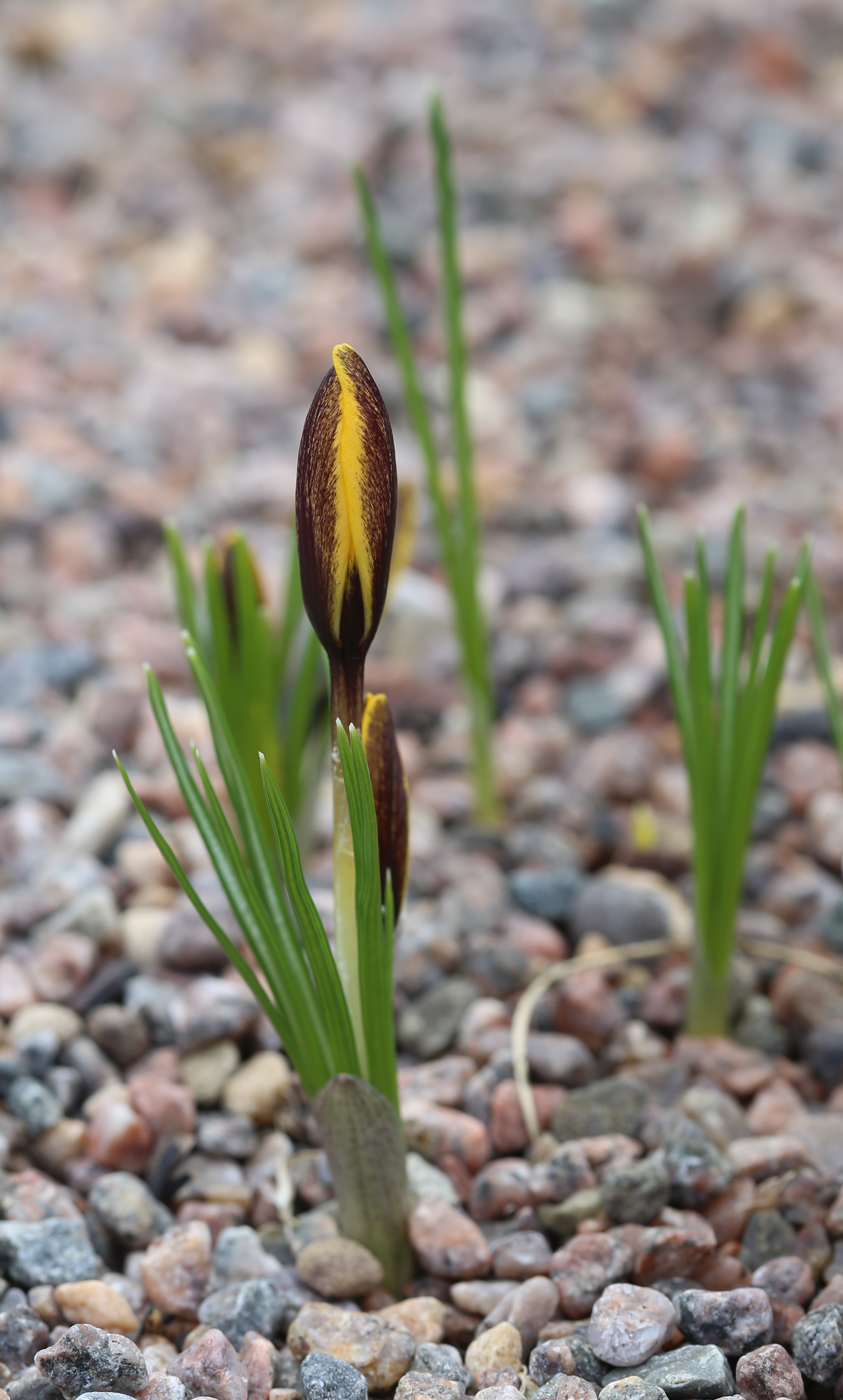 Crocus korolkowii at Gothenburg botanical garden in 2015. Plant id: 1997-2624 p W; Seisums